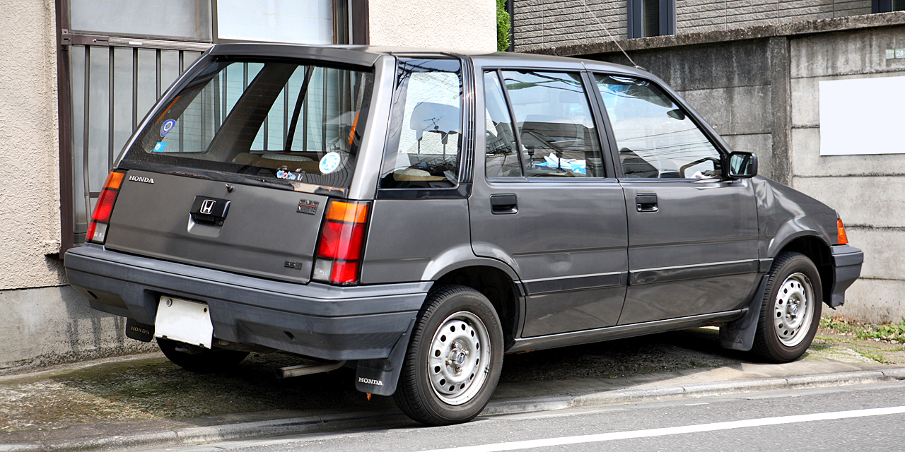 Honda Civic Shuttle 55J